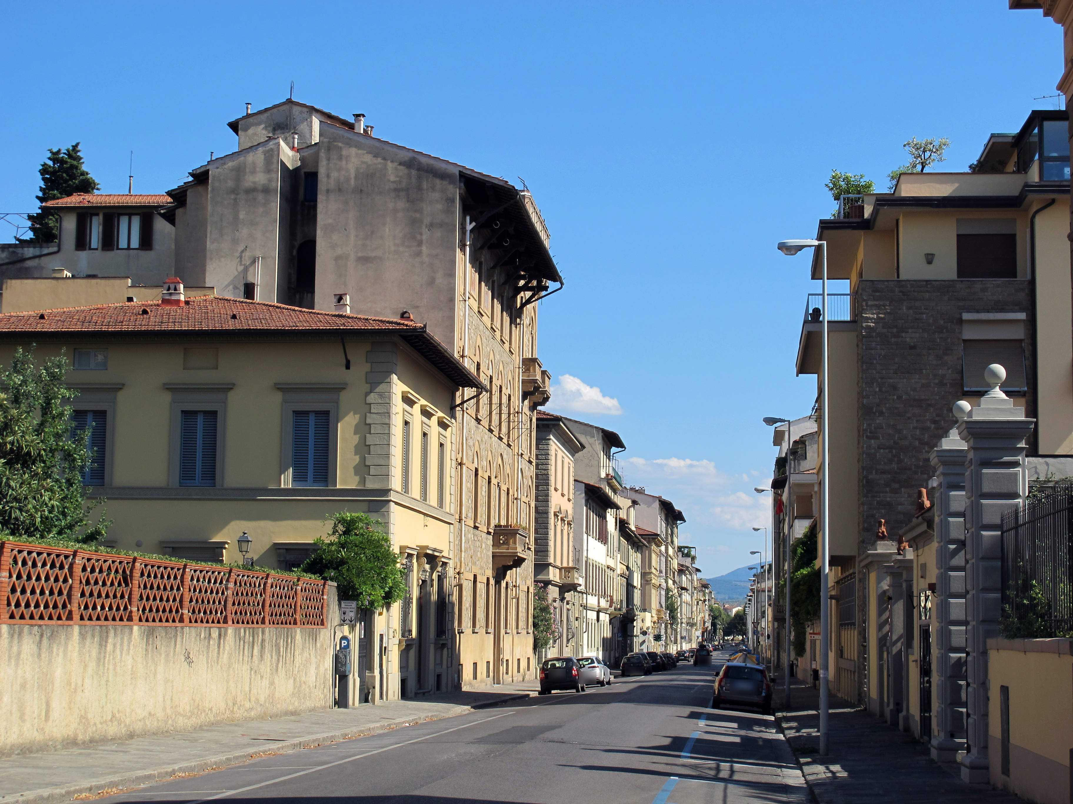 Florence, Italy (see filename)